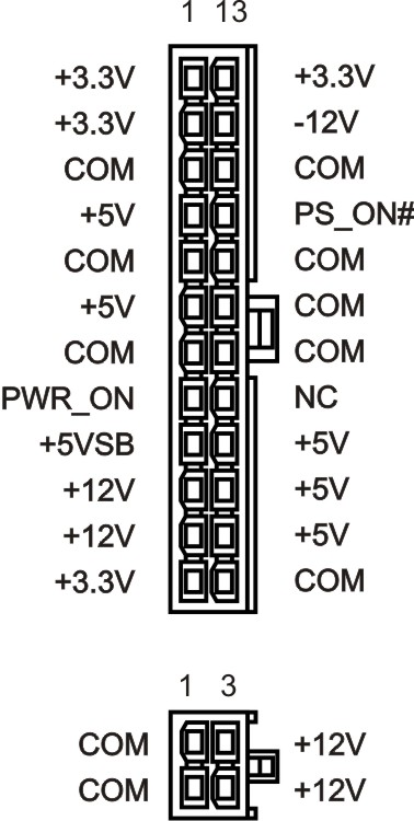 ATX power supply signal diagram